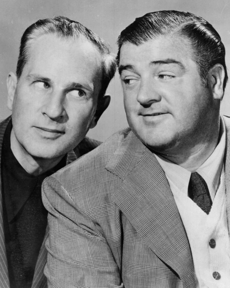 Photo of Bud Abbott and Lou Costello as the hosts of the television program The Colgate Comedy Hour. The program featured rotating hosts from week to week with Jerry Lewis and Dean Martin as hosts, as well as Eddie Cantor being one of them.